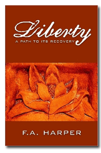 Cover of the book Liberty: A Path to Its Recovery by F.A. Harper